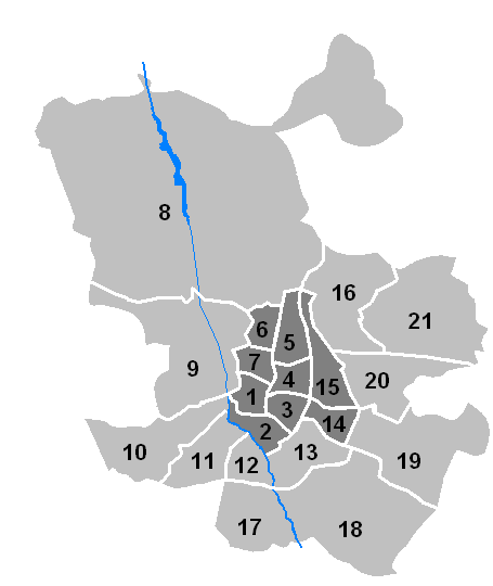 Locator maps of districts in Madrid: Maps - ES - Madrid - Overview districts numbered.PNG